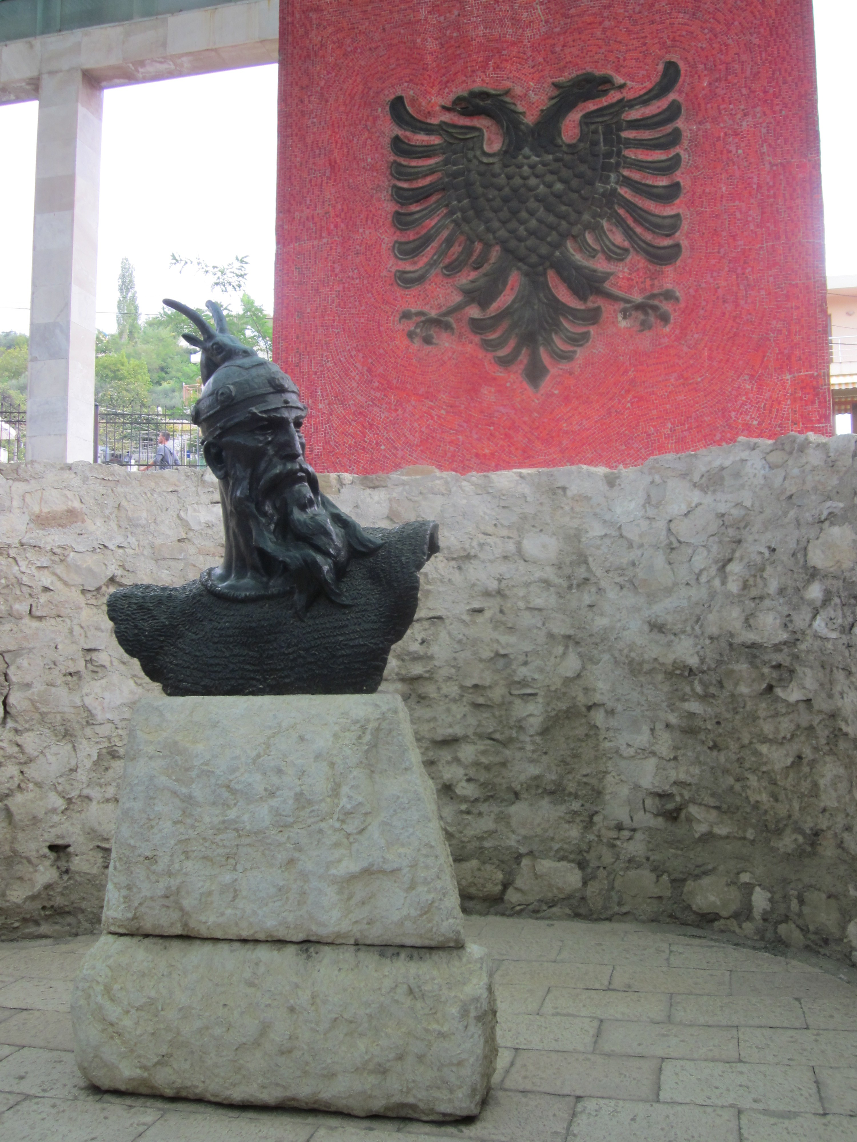 Statue of Albania's national hero Skanderbeg in the former Saint Nicholas Church of Lezhë